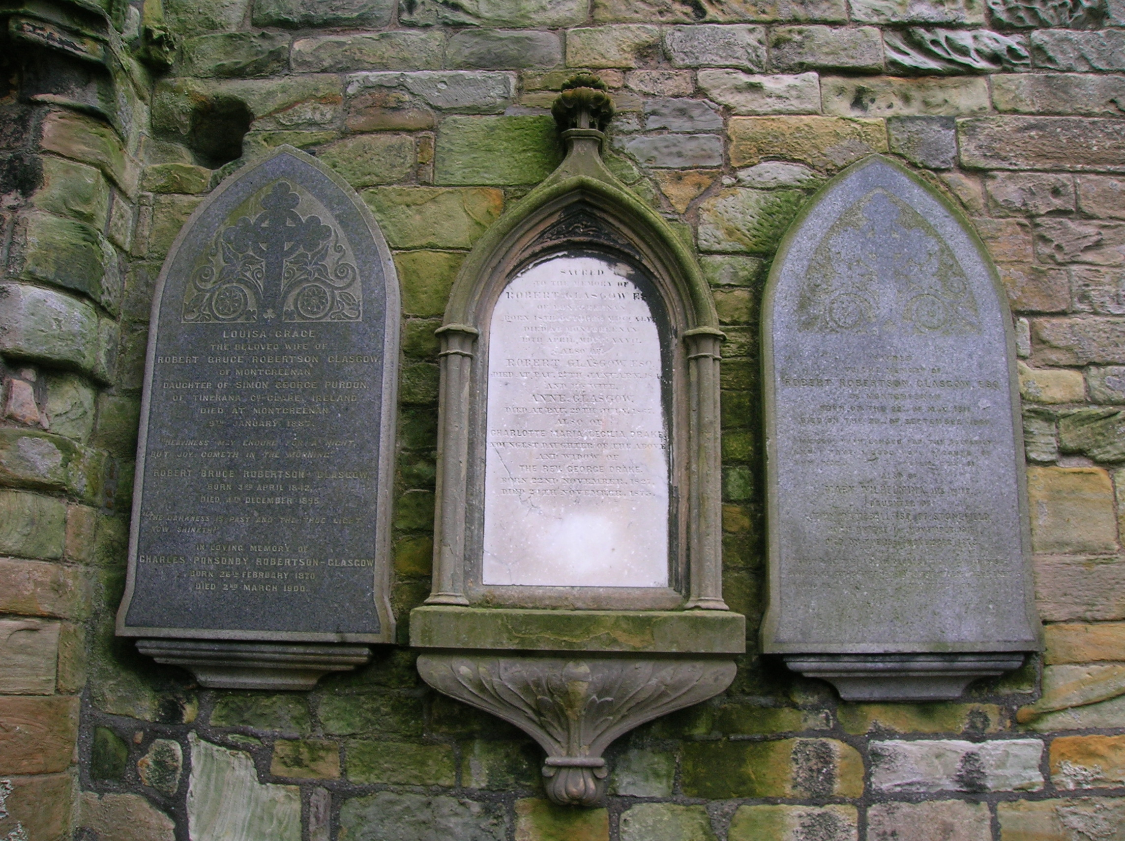 memorials to the Glasgow family of Montgreenan at Kilwinning Abbey, Ayrshire, Scotland.